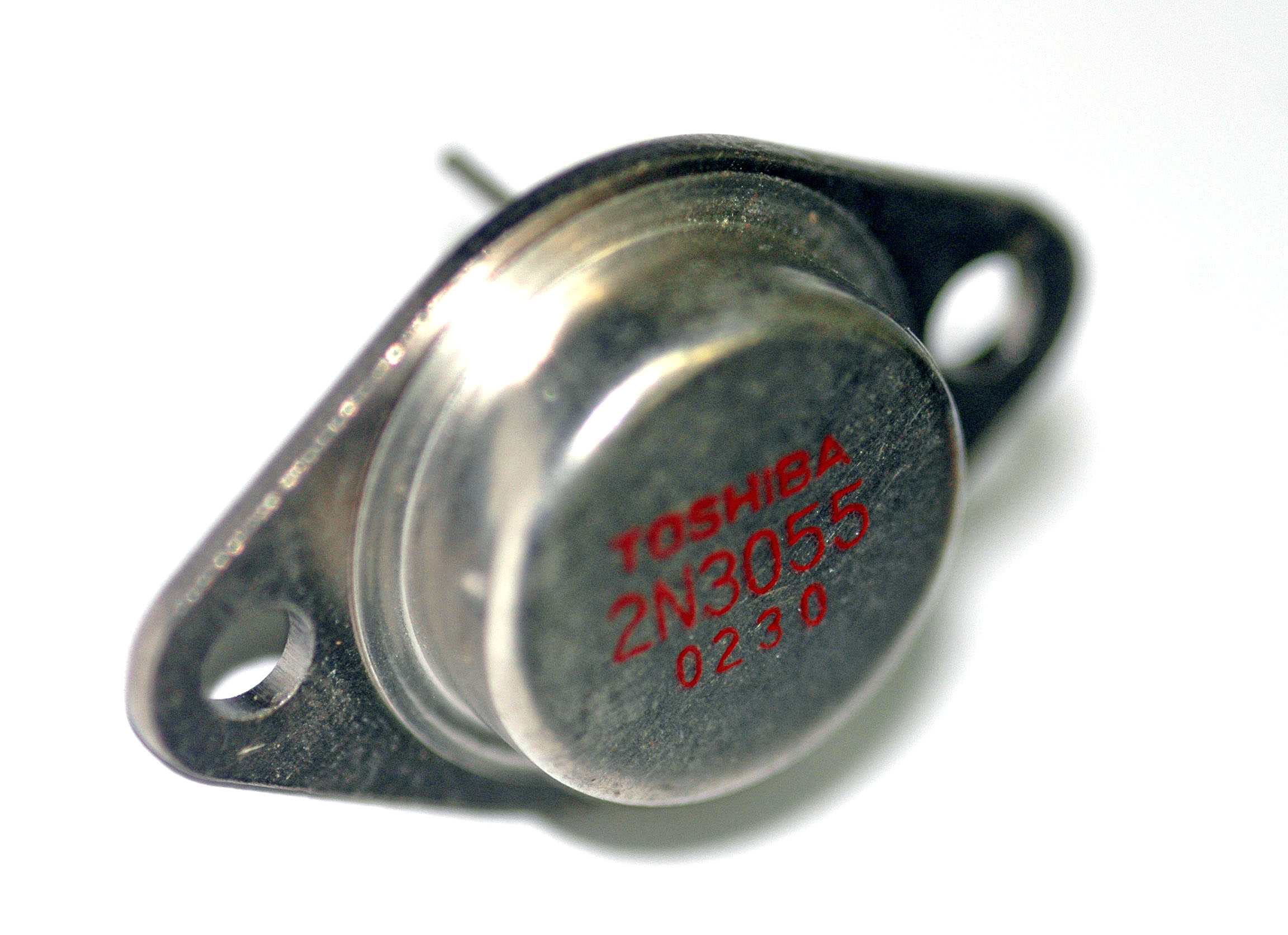 A Toshiba-made 2N3055 power bipolar junction transistor.